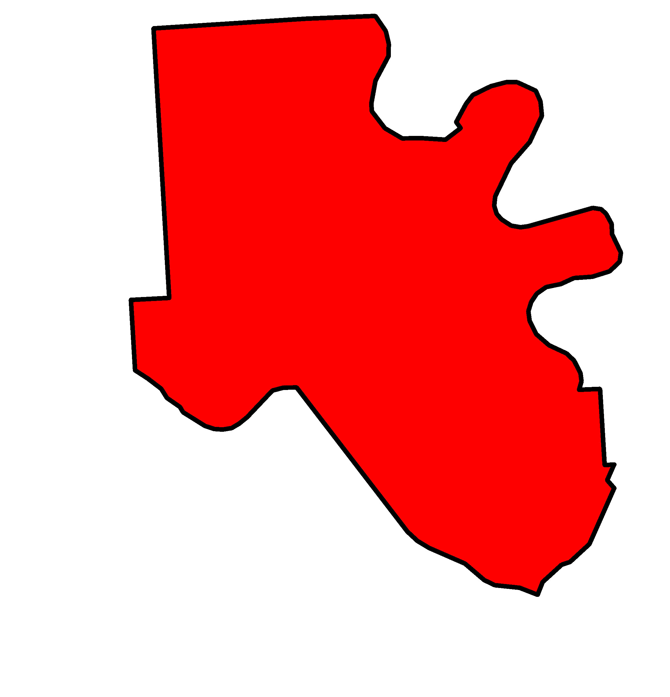 A map of Alberta provincial electoral districts, effective 2010, in the Medicine Hat area. Medicine Hat is highlighted in red.